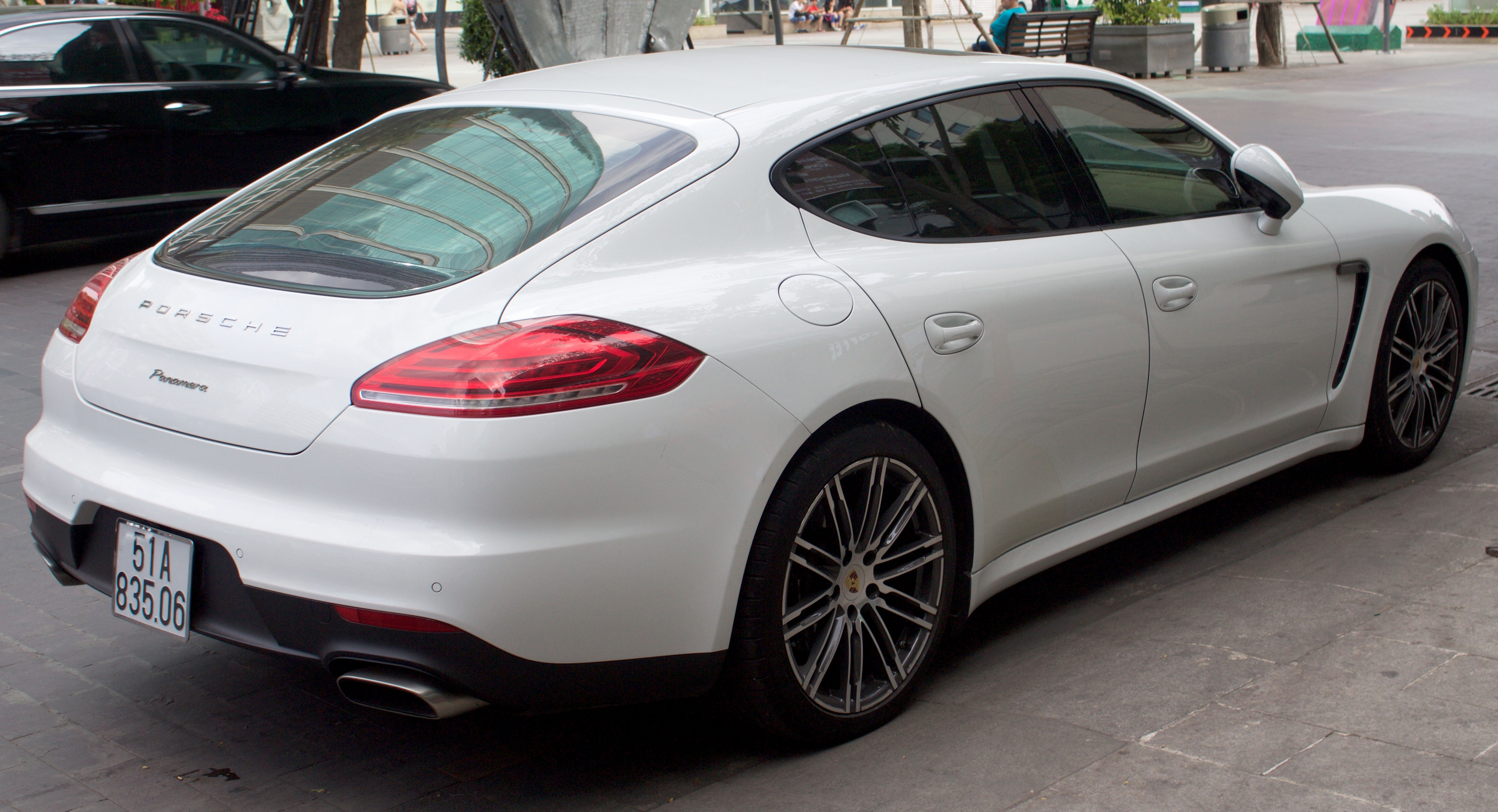 Porsche Panamera 970, facelift, photographed in Ho Chi Minh City, Vietnam